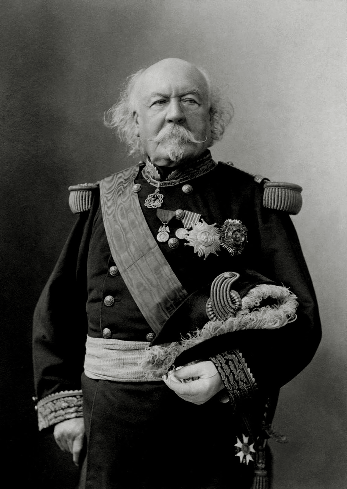 François Certain de Canrobert by Nadar